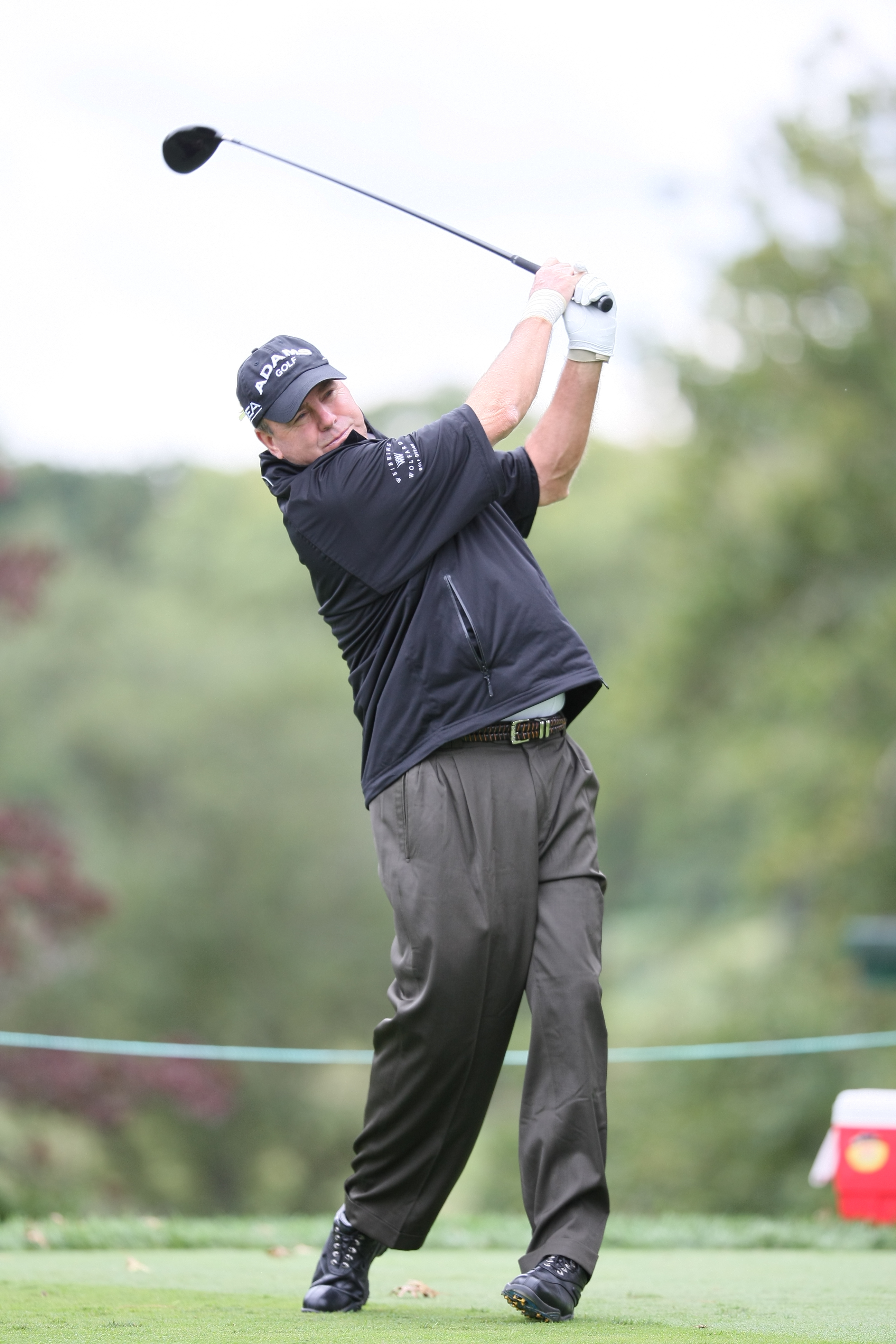 Constellation Energy Senior Players Championship Pro-Am held at Baltimore Country Club/Five Farms (East Course) on September 30, 2009 in Timonium, Maryland